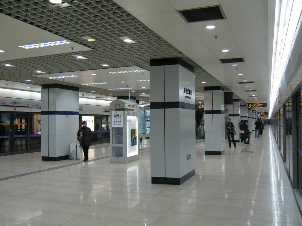 Line 4 Platform of Shanghai Stadium Station